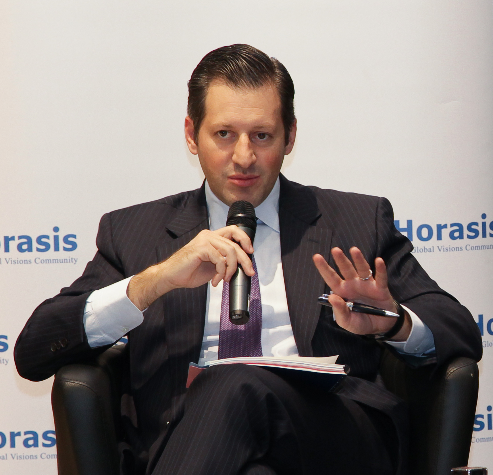 Boris F.J. Collardi, CEO, Julius Baer Group; Li Dongrong, Assistant Governor, People's Bank of China